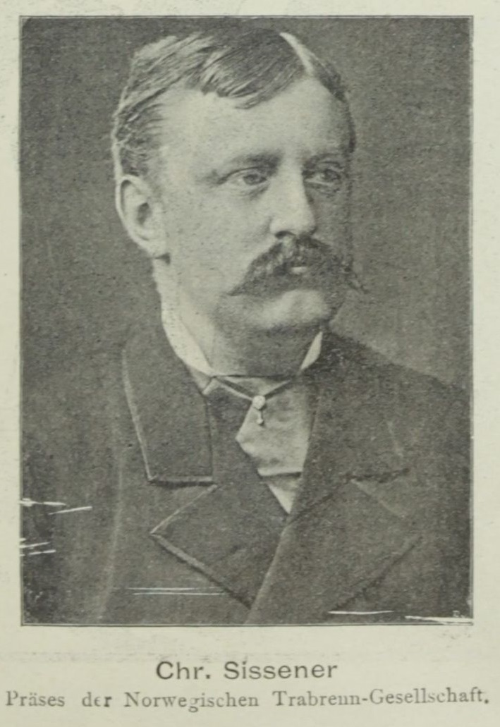 Portrait of Christian Fredrik Sissenèr (1849-1903), Norwegian landowner, politician and president of the Norwegian horse-racing association.